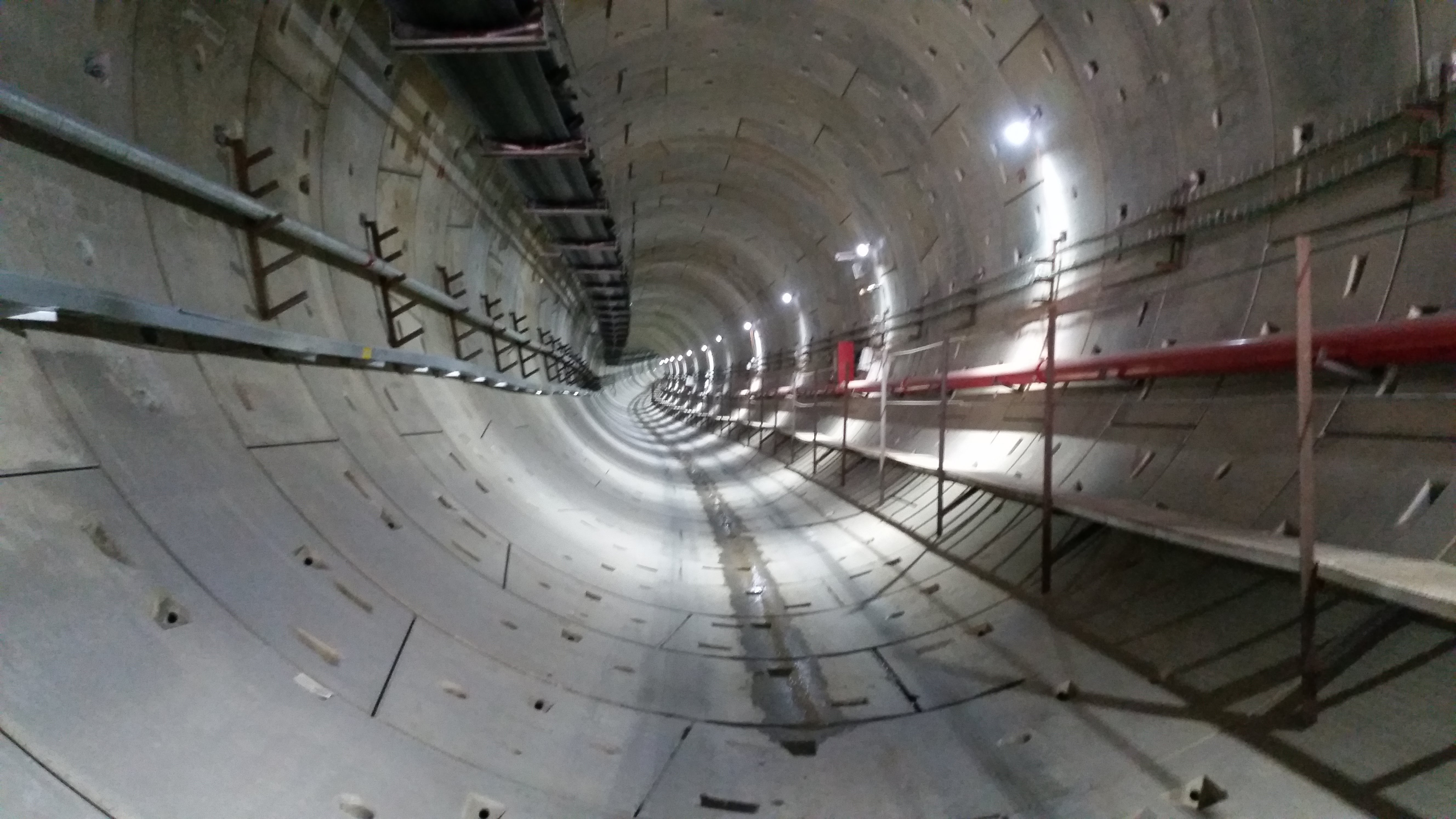 Tel Aviv Light Rail Red Line Kiryat Arie Tunnel Inside